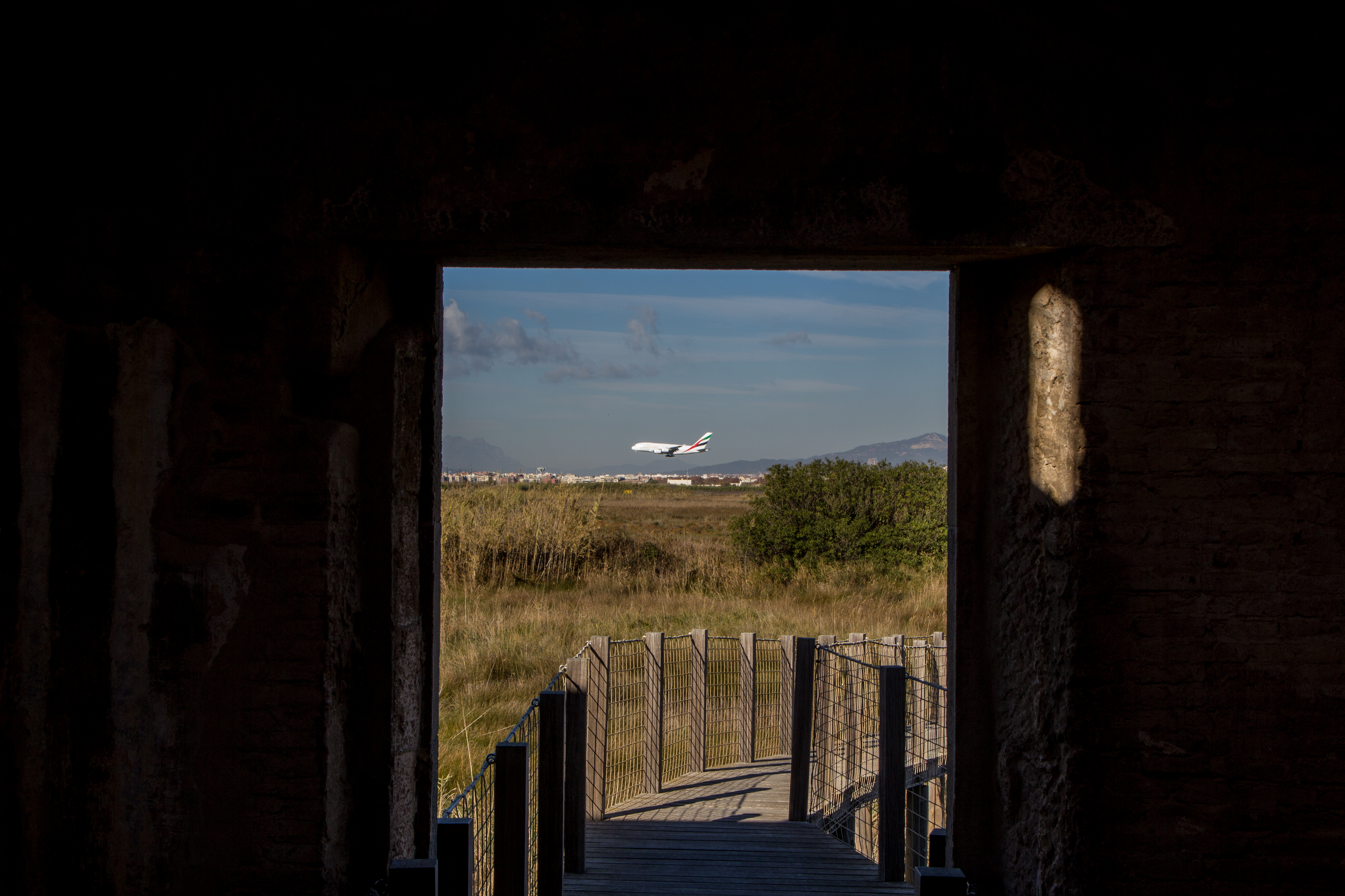 Exterior view from the Semàfor